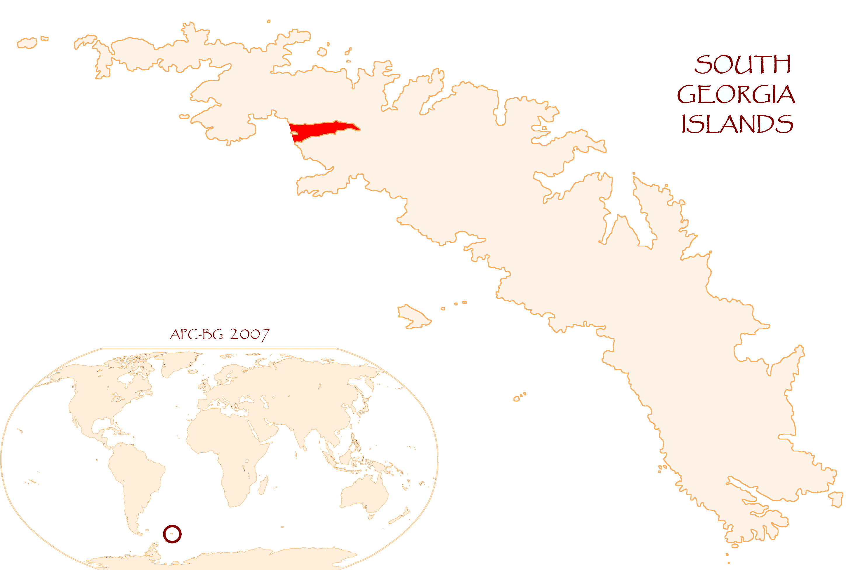 Location map for King Haakon Bay, South Georgia published by the author Apcbg.